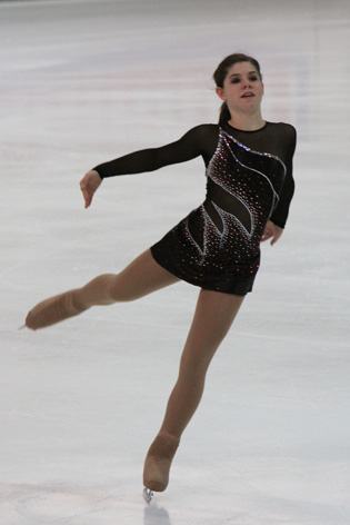 Miriam ZIEGLER at the 2009 Nebelhorn Trophy.